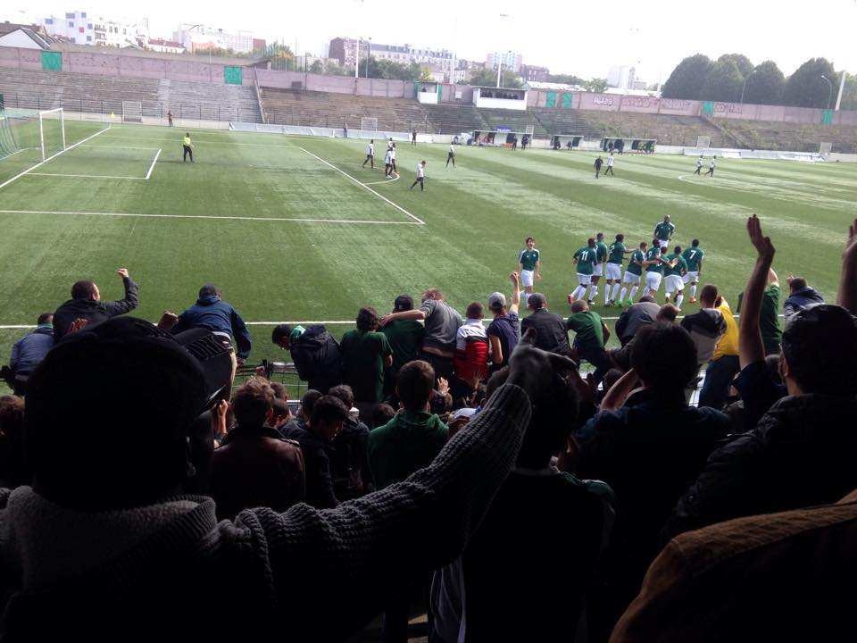 Stade Bauer, Tribune Rino, 4 Octobre 2015, Red Star B - Ararat Issy